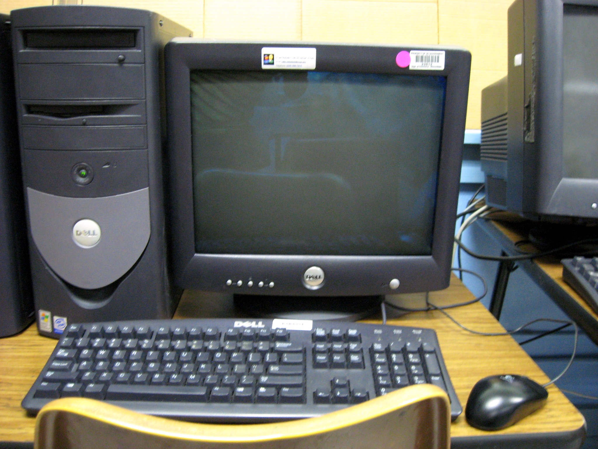 Dell desktop computer with a Intel Inside Pentium 4 Processor and Windows XP Professional as the operating system.